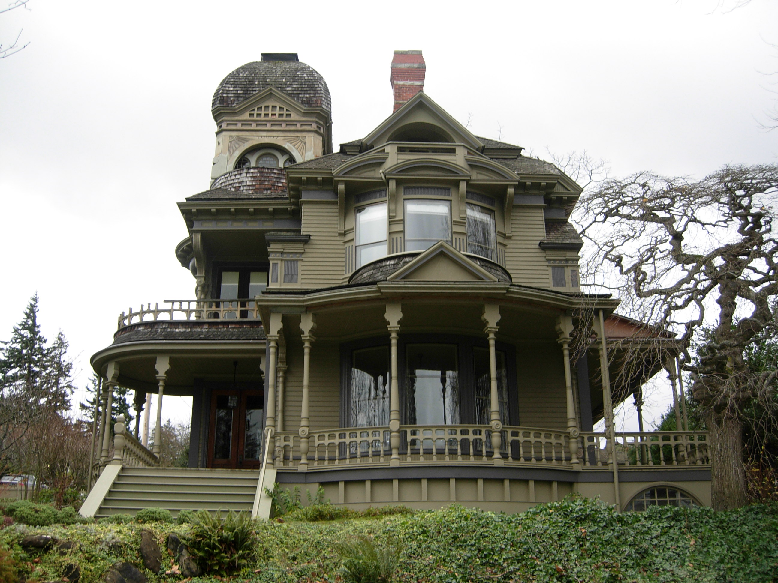 The Gamwell Home — in Bellingham, Whatcom County, Washington. Victorian Queen Anne style house on the National Register of Historic Places.